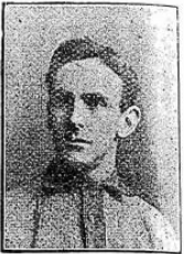 England national football team player Fred Wheldon